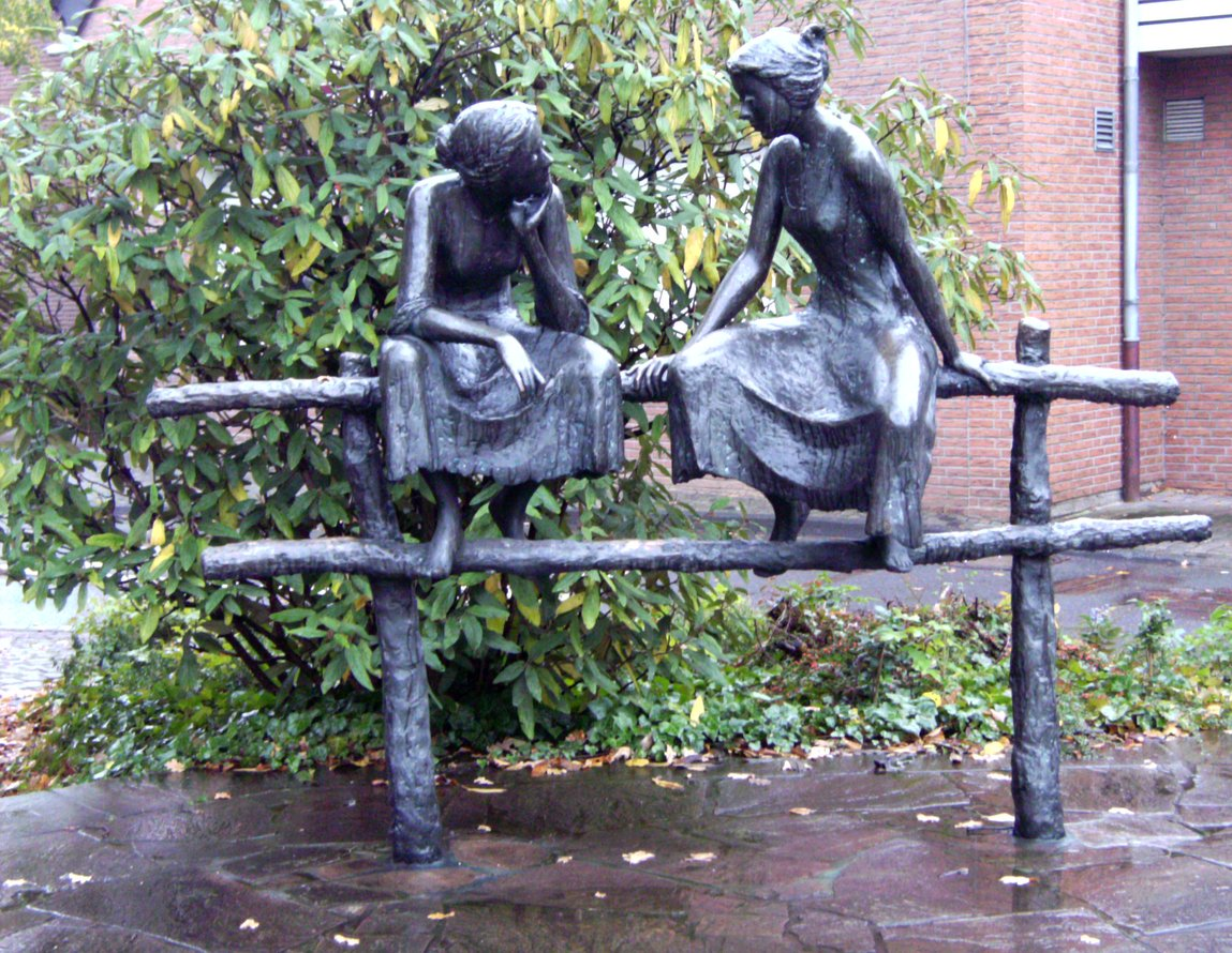 Village square Rinkerode